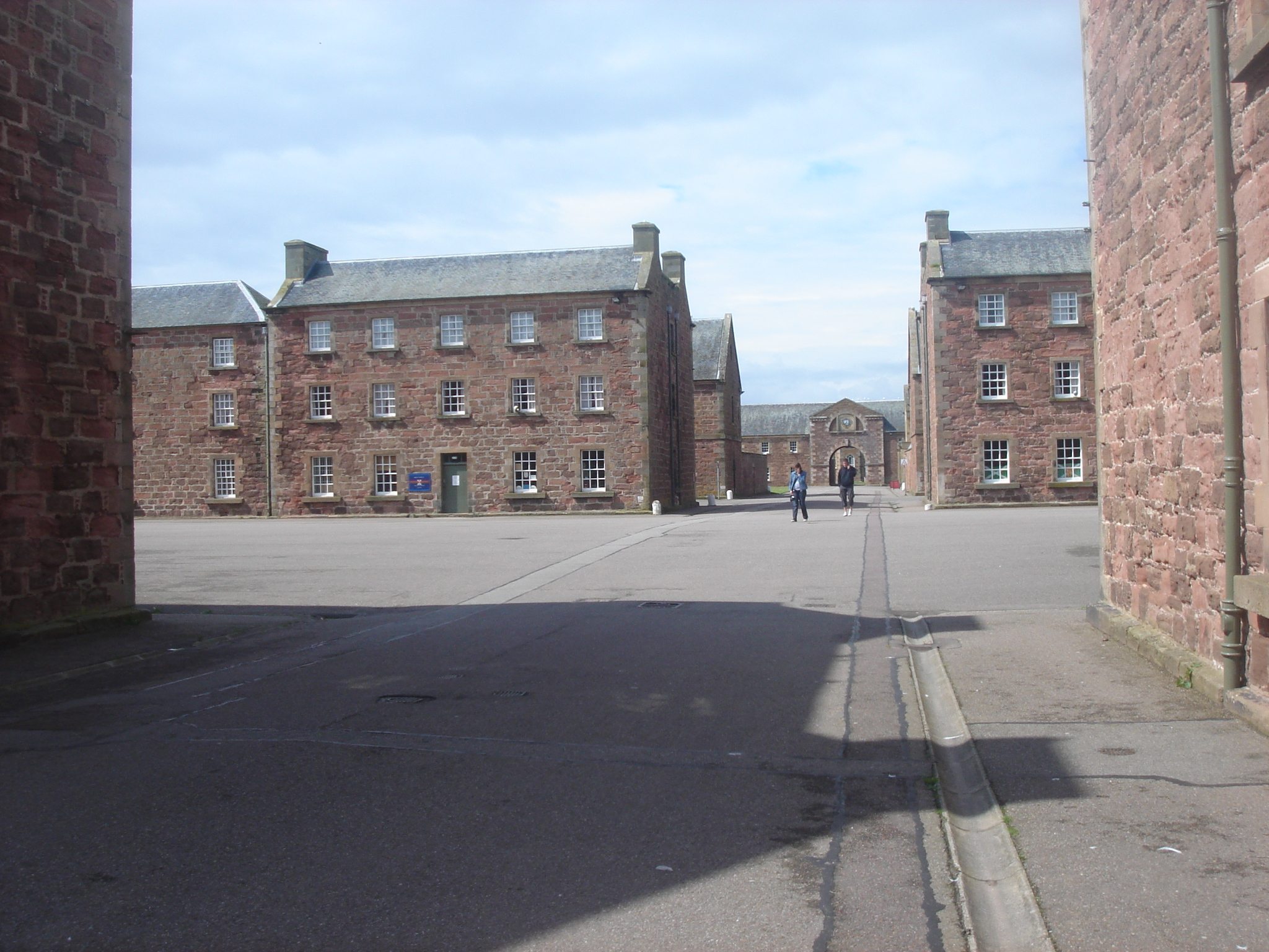 Inside Fort George, Highland, Scotland